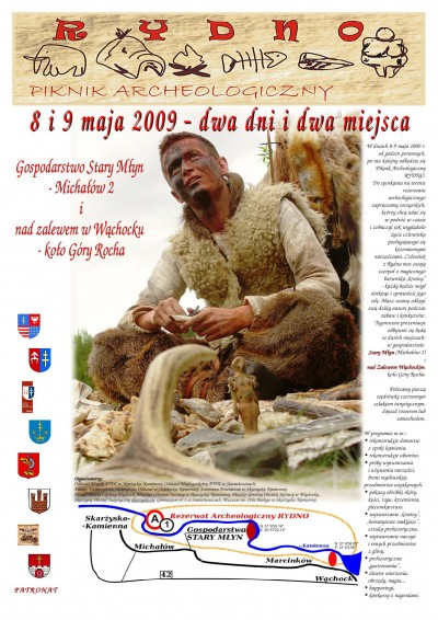 Picnic Rydno 2009